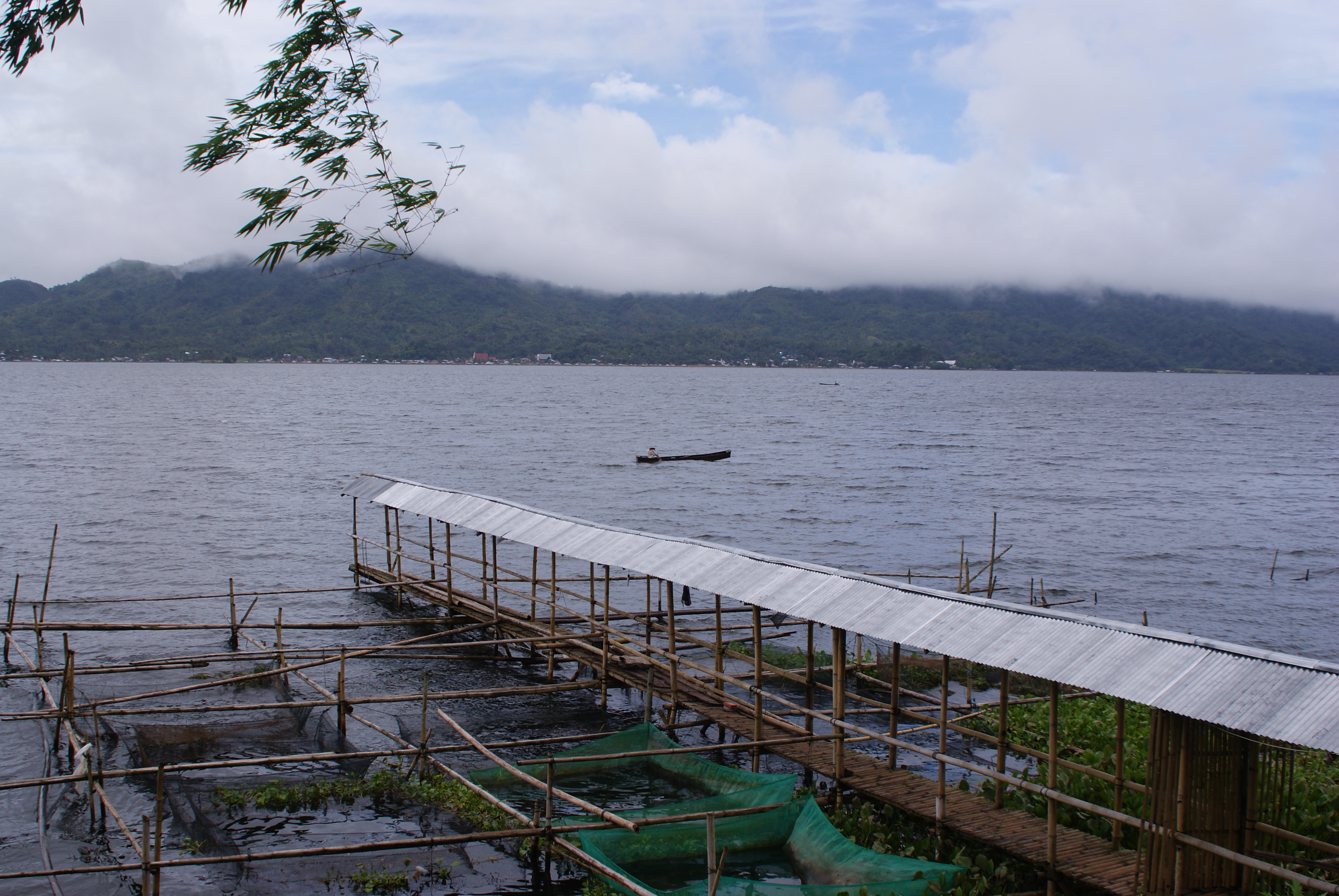 Lake Tondano, North Sulawesi, Indonesia